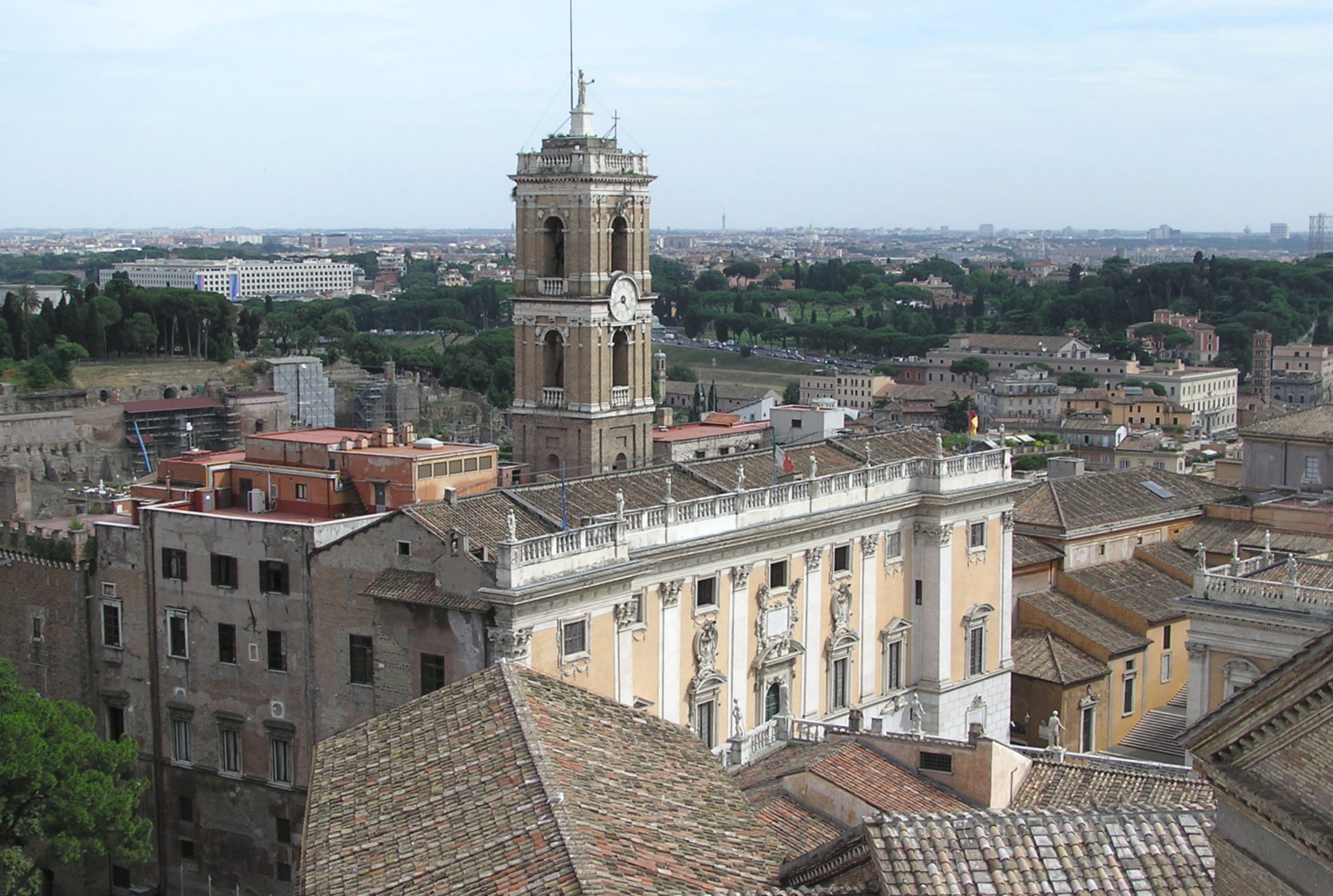 Palazzo Senatorio (now used as the Town Hall) in Piazza Campidoglio, seen from the top of the monument to Vittorio Emanuele II.